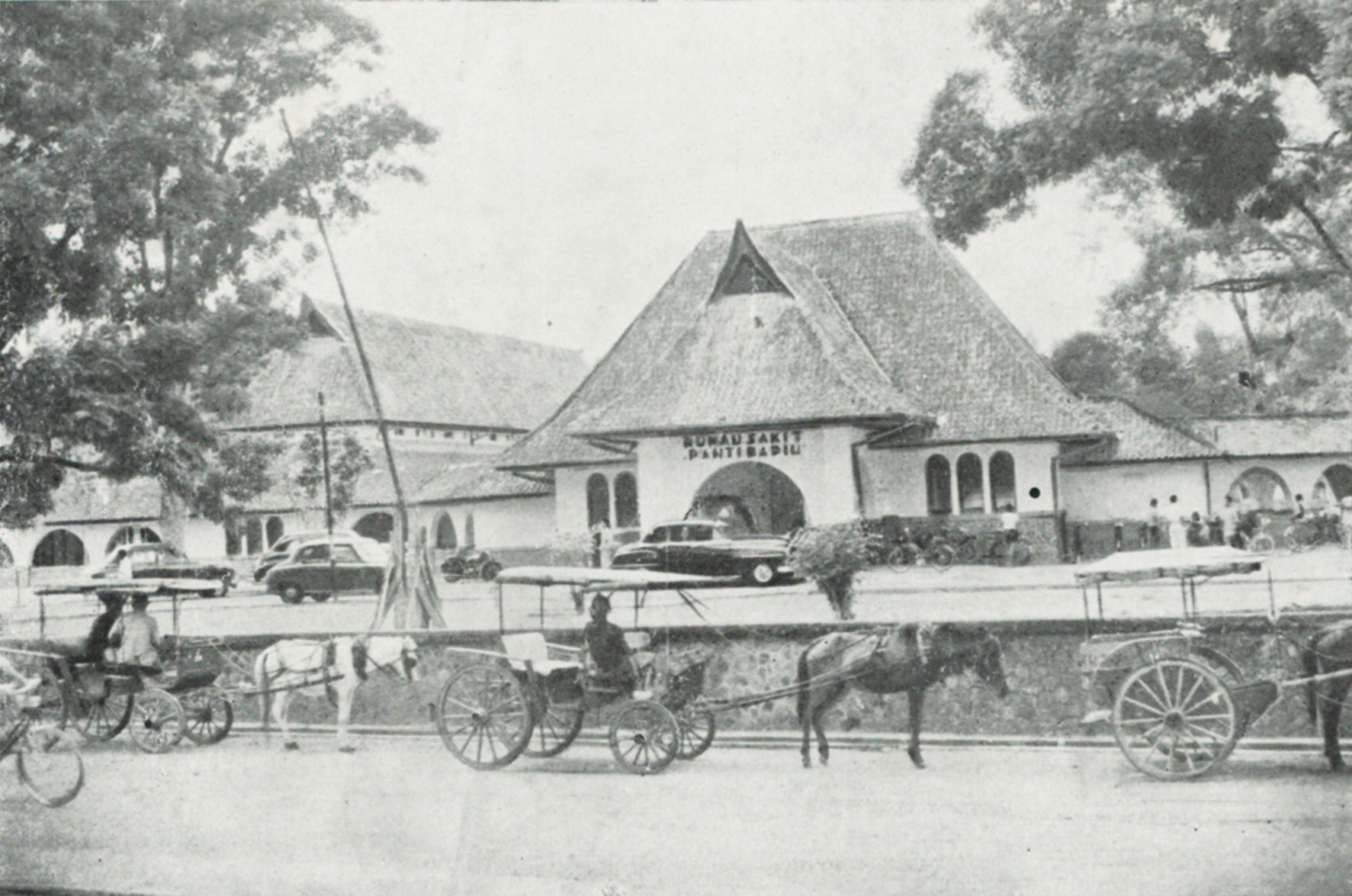 Panti Rapih Hospital Yogyakarta, Kota Jogjakarta 200 Tahun, plate before page 97